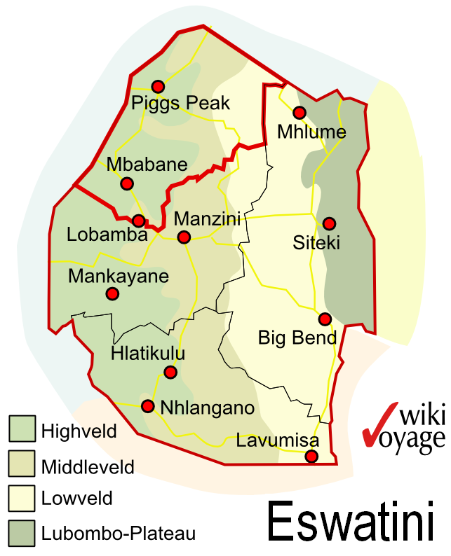 Outline map of District Hhohho in Eswatini